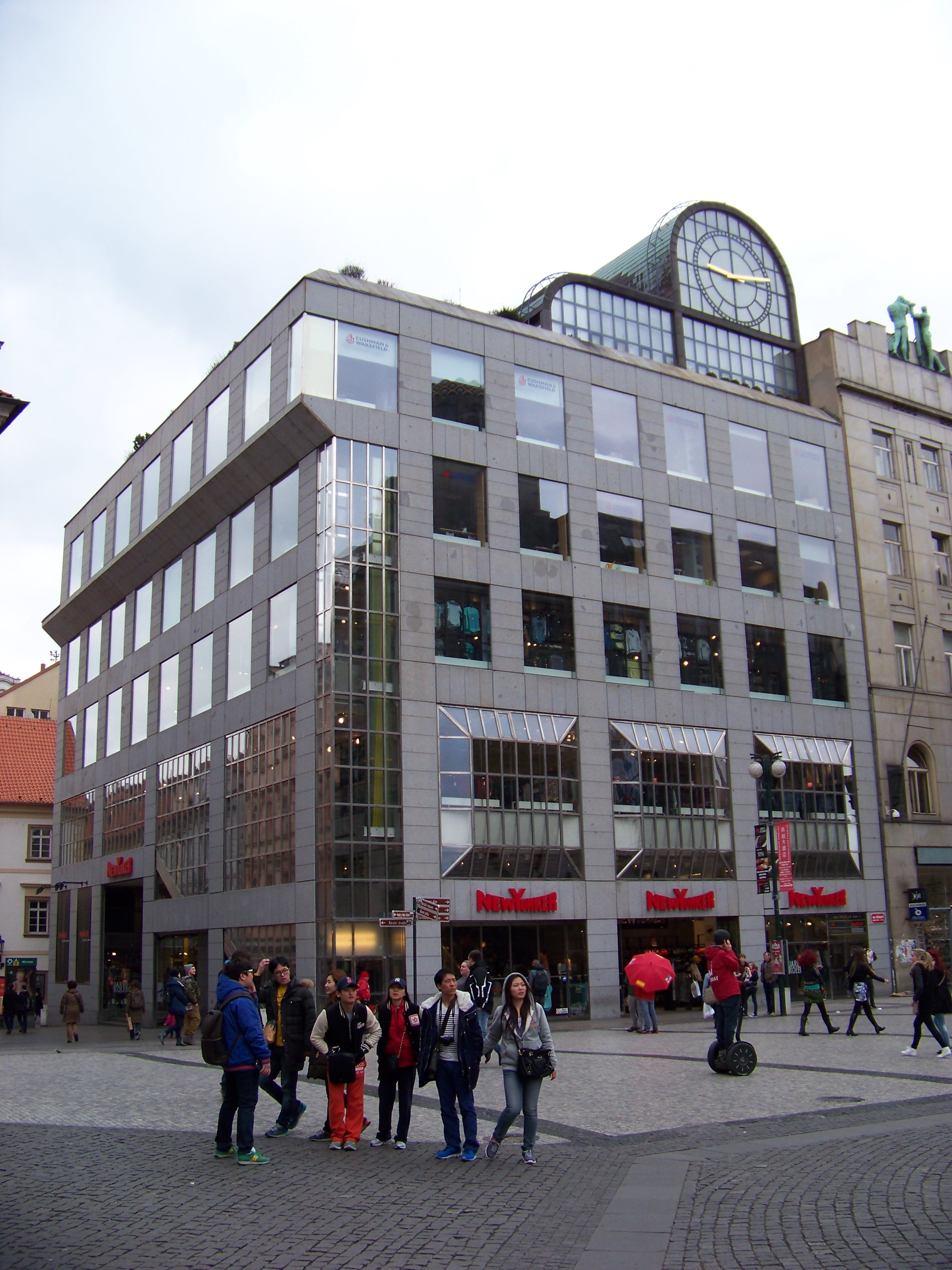 Prague-Old Town, Czech Republic. Na příkopě 388/1, Na můstku 388/9.